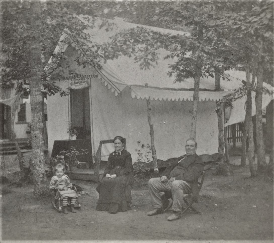 L. Simmins, Yarmouth camp grounds. Alternative title [View of a couple and child in front of a tent at Yarmouth Camp ground.]